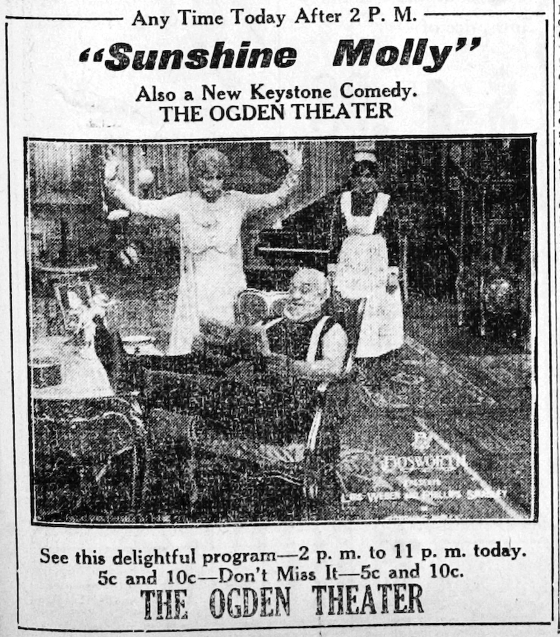 Sunshine Molly is an extant 1915 American comedy silent film directed by Phillips Smalley and Lois Weber and written by Lois Weber.